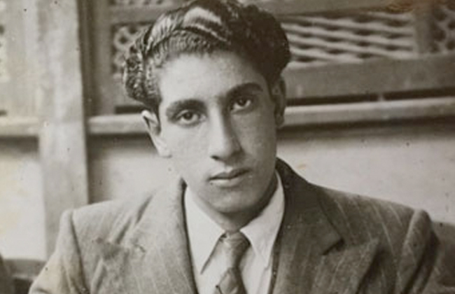 يوسف وهبي في شبابه قبل التمثيل.